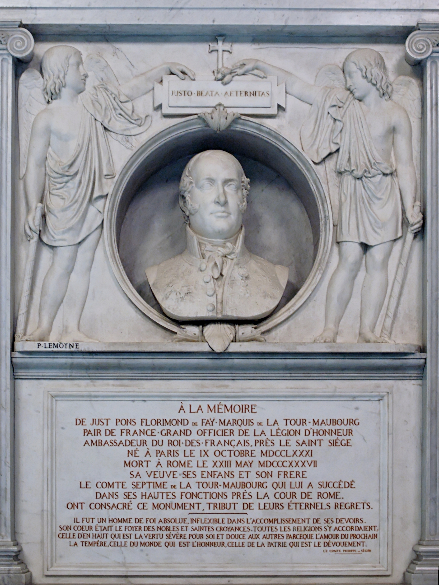 Monument to Just Pons Florimond de Faÿ (1781-1837), marquis of La Tour-Maubourg, French ambassador to the Holy See. Marble, relief by Paul Lemoyne (1783-1873). San Luigi dei Francesi in Rome, Italy.